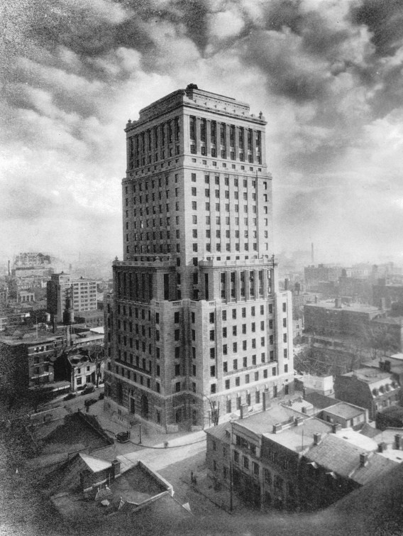 The Bell Telephone Building, Beaver Hall Hill, Montreal, Quebec, Canada